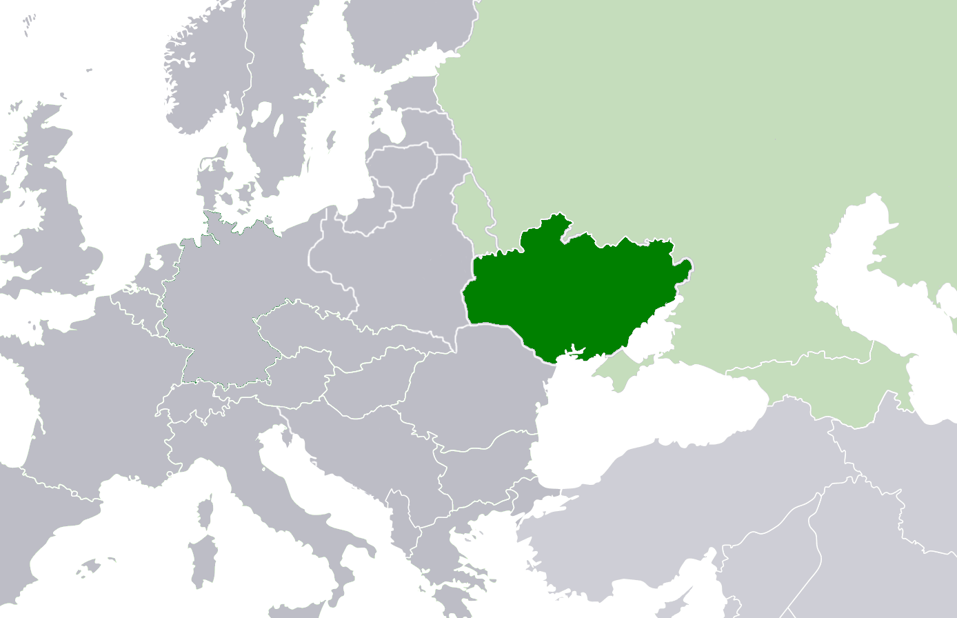 Location map of the Ukrainian SSR and its boundary at the time of formation of the USSR.